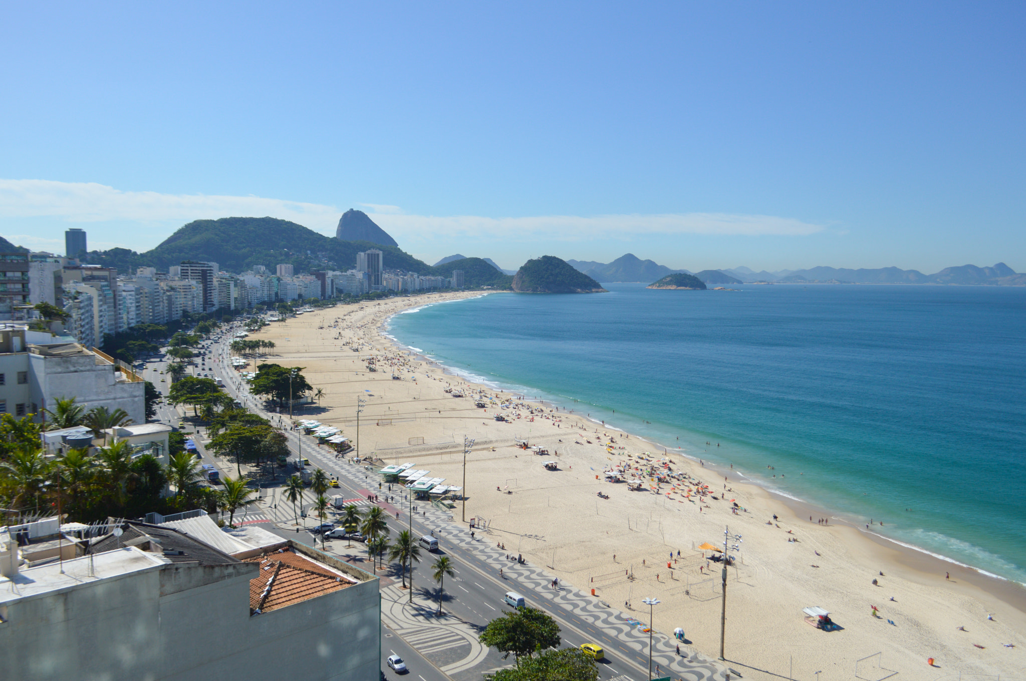 500px provided description: Copacabana [#sky ,#mountains ,#beach ,#buildings ,#clouds ,#ocean ,#pao de acucar ,#Atlantic ,#Copacabana ,#Avenida Atlantica]